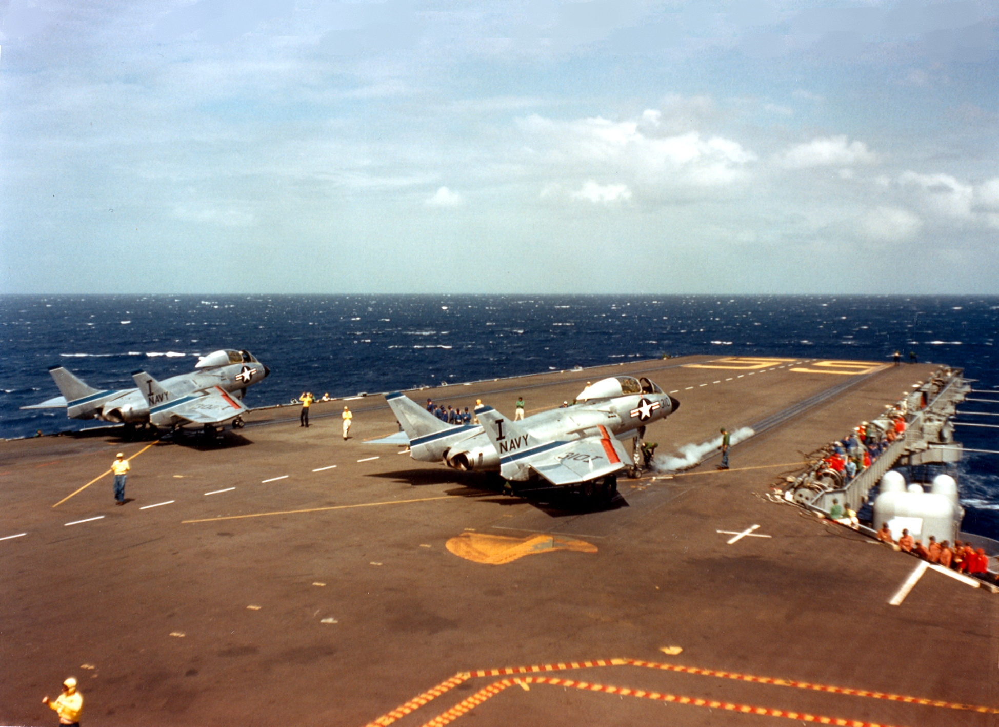 A U.S. Navy Vought F7U-3M Cutlass aircraft of Attack Squadron VA-86 "Sidewinders" are on the catapults on the flight deck of the aircraft carrier USS Forrestal (CVA-59). VA-86 was assigned to Air Task Group 181 (ATG-181) aboard the Forrestal during her shakedown cruise from 24 January to 31 March 1956.